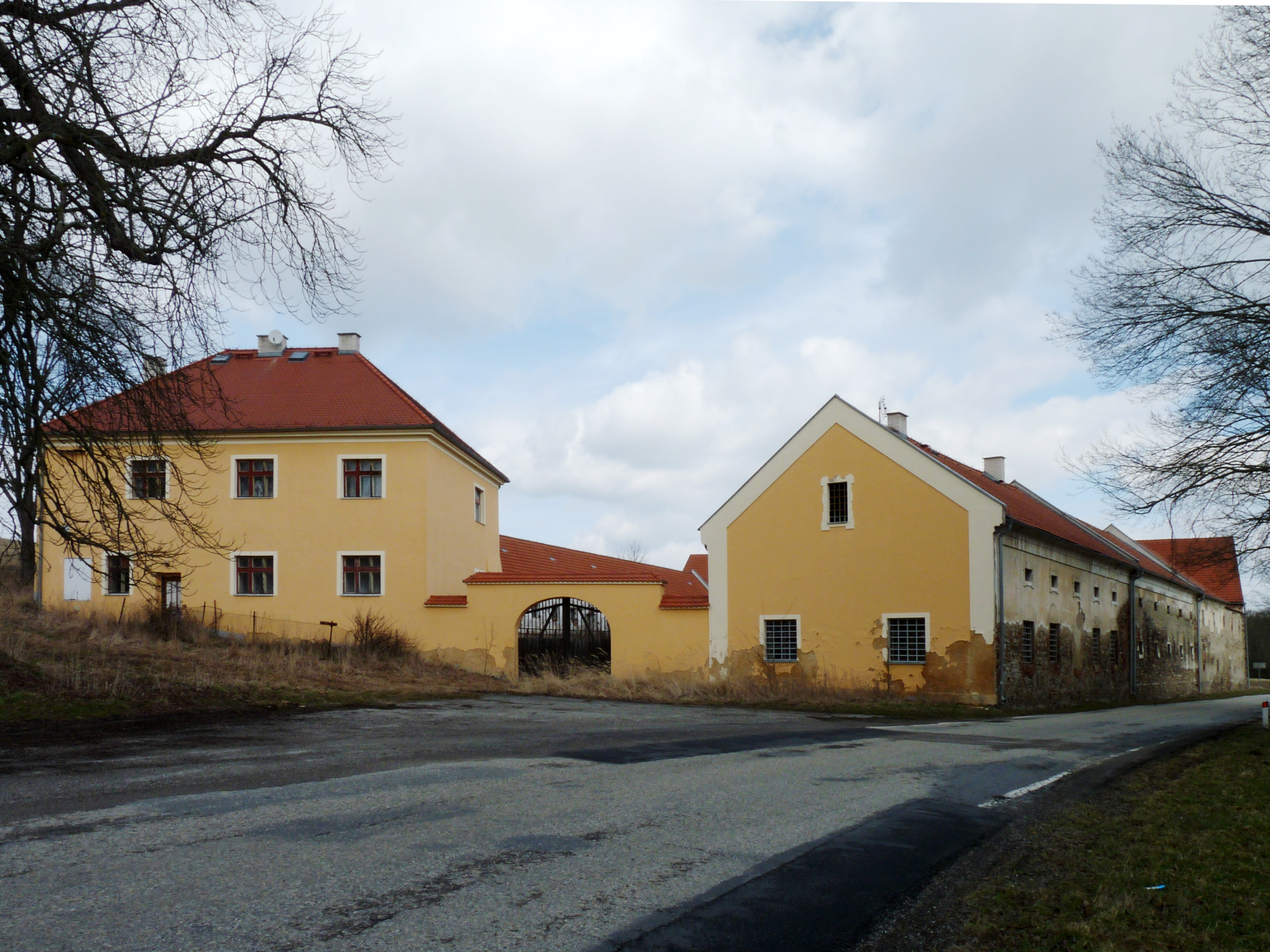 Estate No 10 in the village of Drahoslavice, South Bohemian Region, Czech Republic.